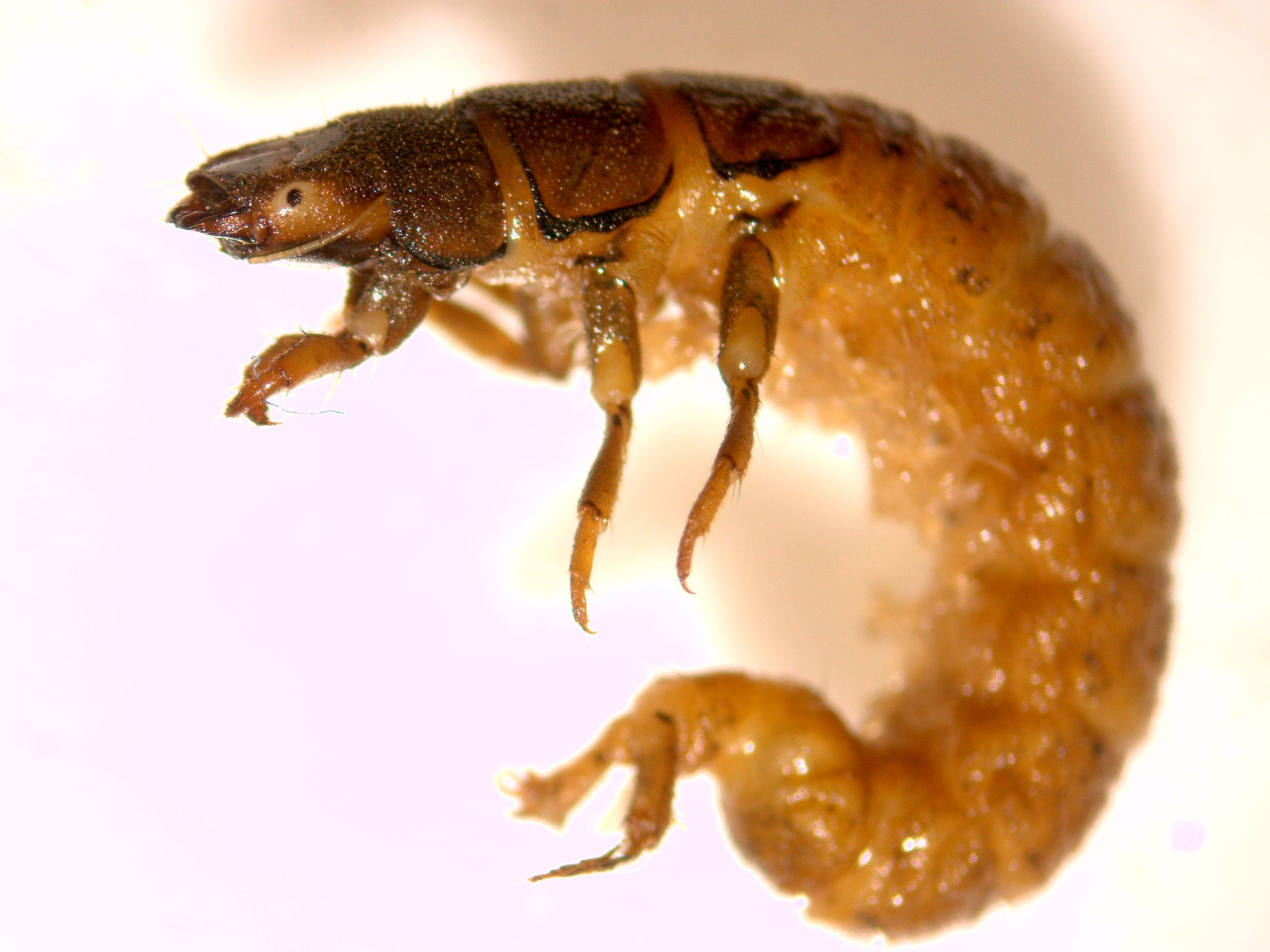 Hydropsyche saxonica larva from Božička river, SE Serbia.